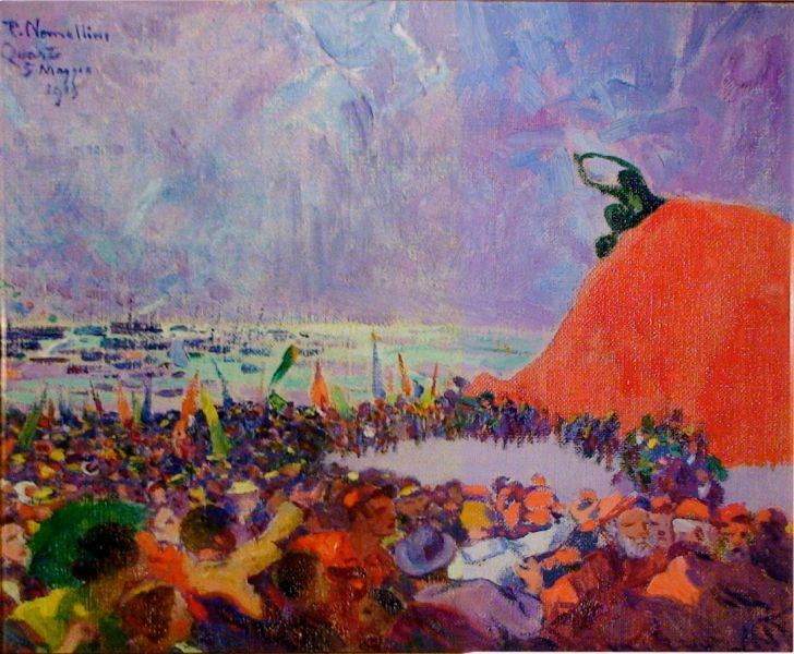 5 may 1915 celebration at Quarto monument